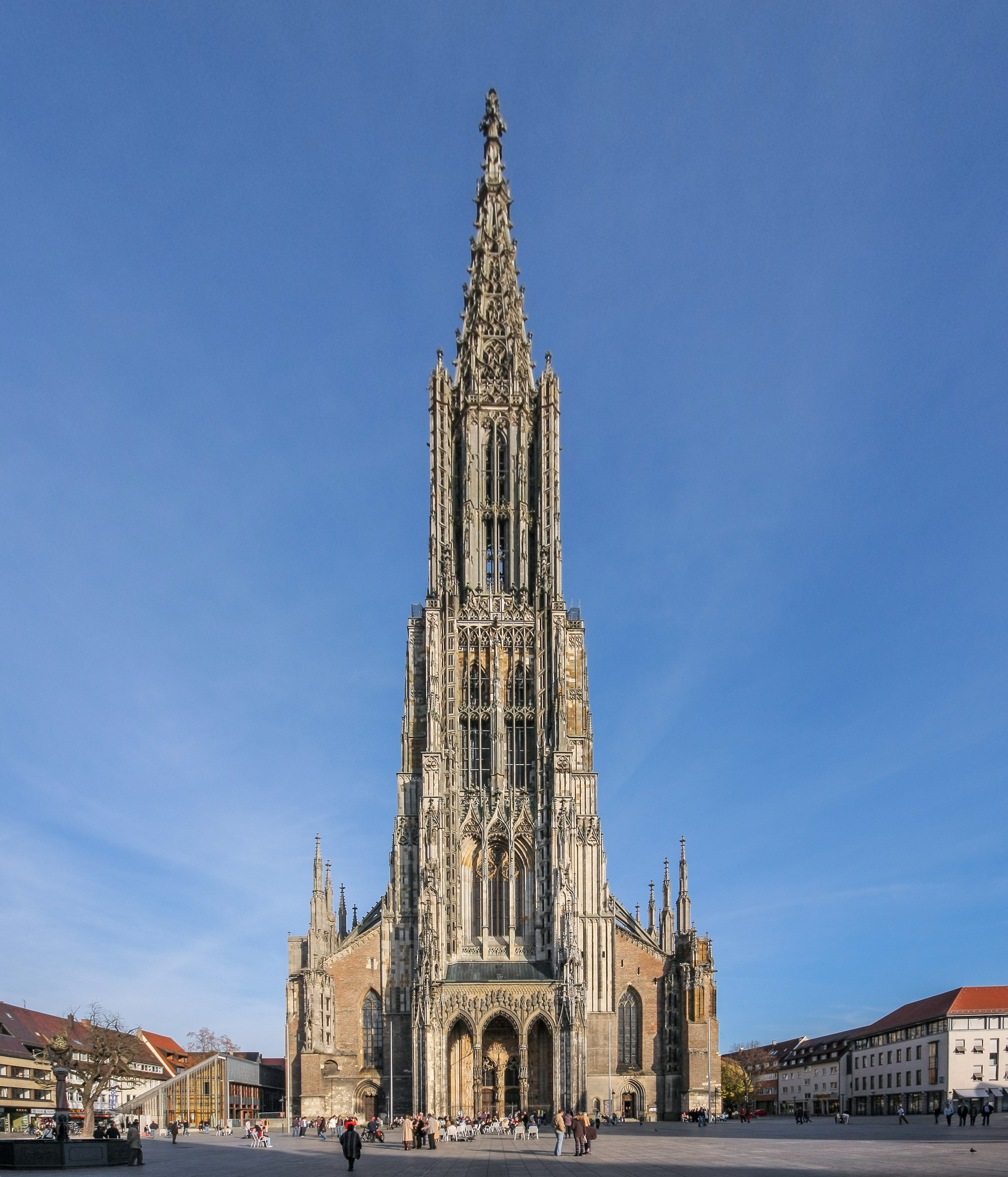 Ulm Minster